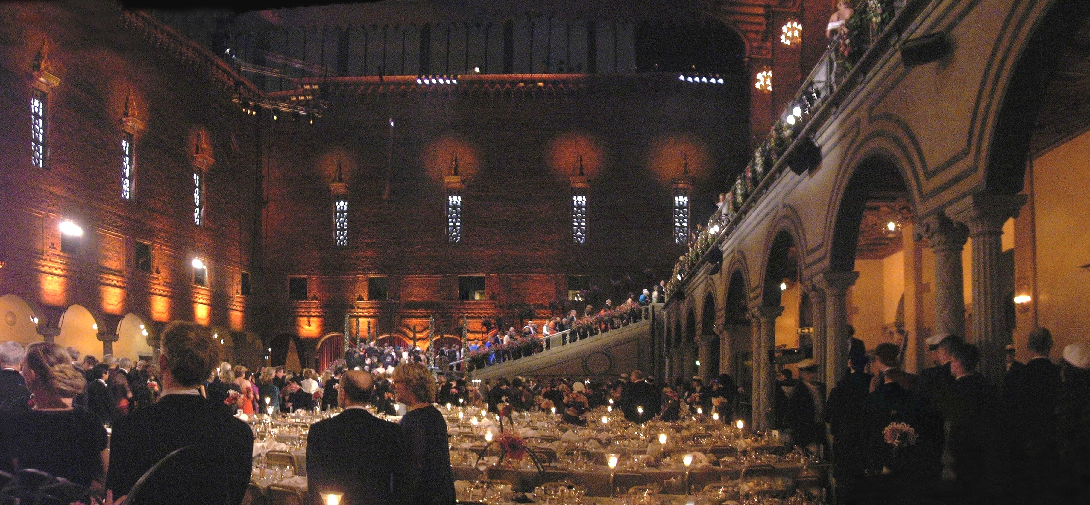 Panoramic shot of the Nobel Prize Banquet 2005 with the guests walking up right after the dinner